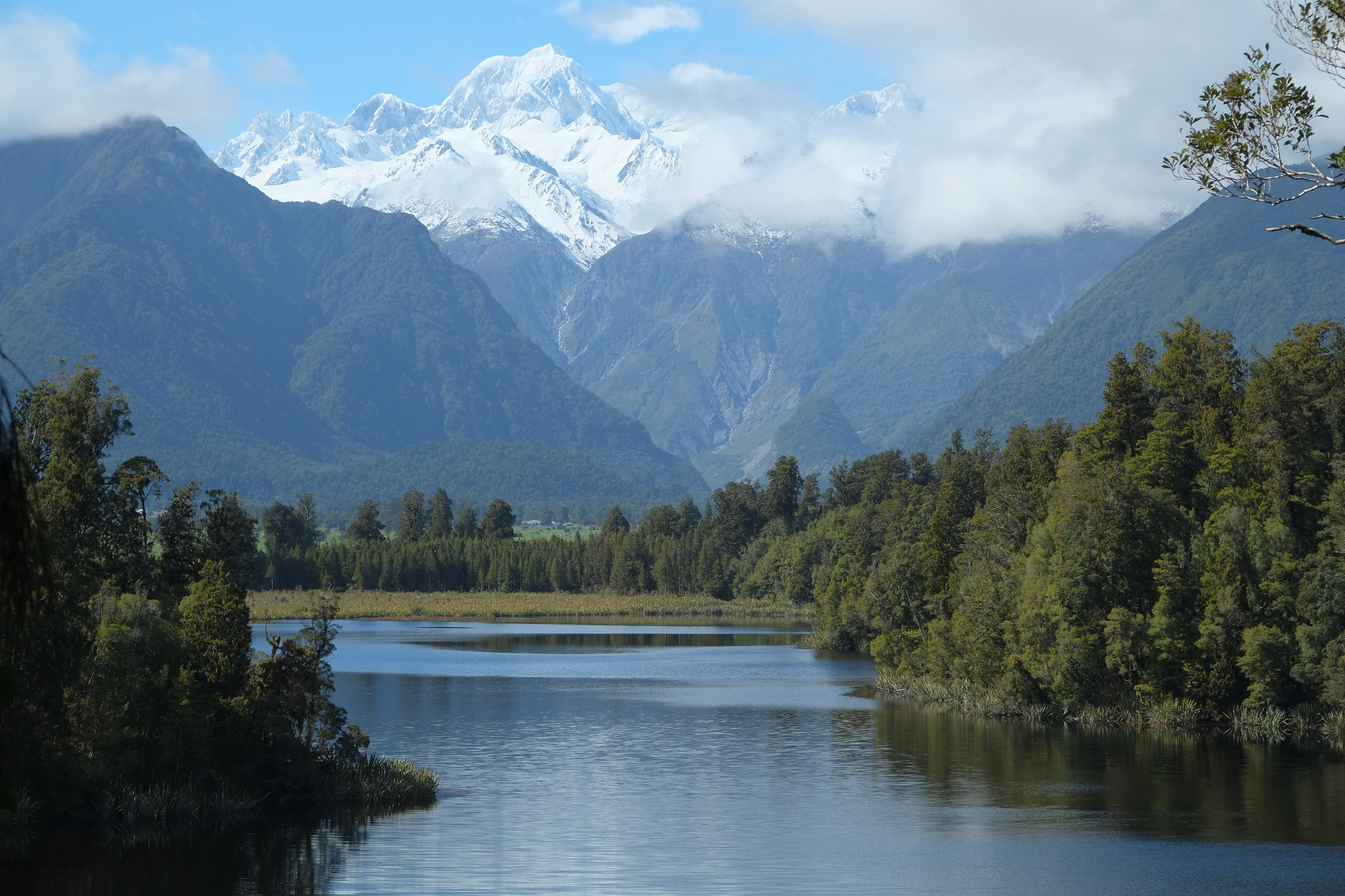 Mount Tasman behind Lake Matheson (Mount Cook obscured by clouds)